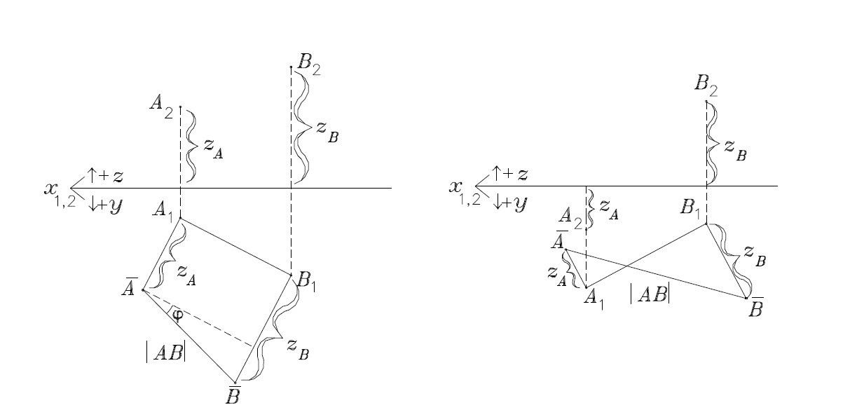 От точка до равнина